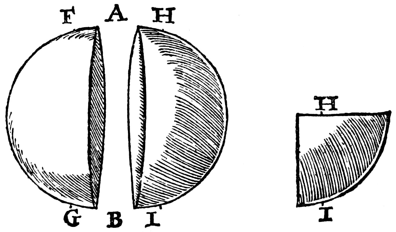 Illustration from De Magnete, etc. by William Gilbert (1600, translated 1900), showing the terrella divided